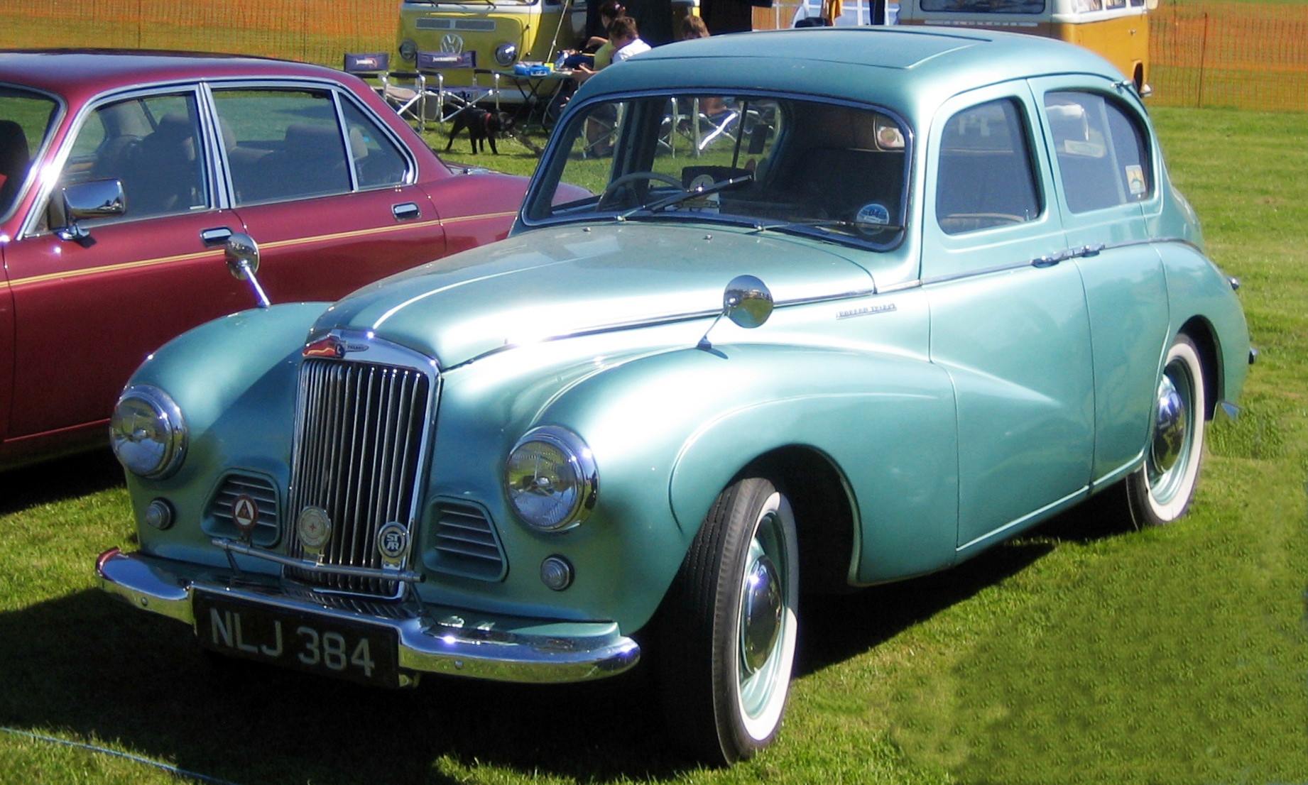 Sunbeam Talbot 90 Mk II from 1953